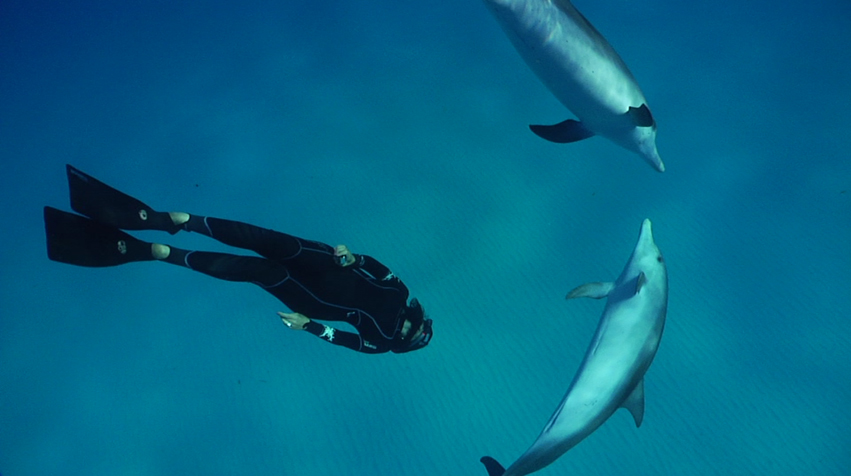 Contact with free bottlenose dolphins by the Dolphin Embassy's freediver